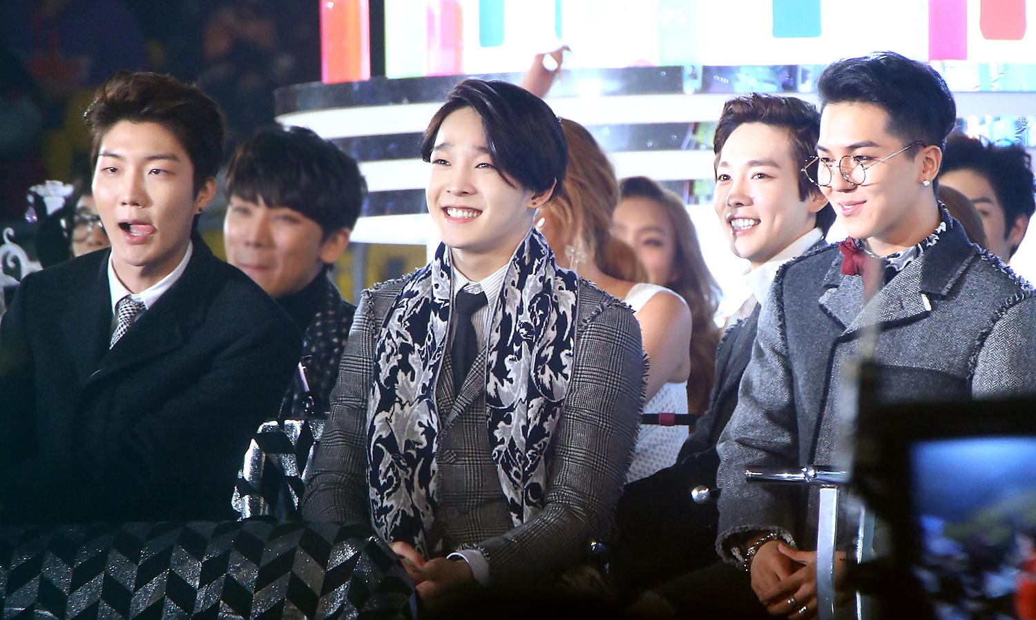 Winner at the Melon Music Awards on November 13, 2014.Português do Brasil: Winner no Melon Music Awards em 13 de novembro de 2014.